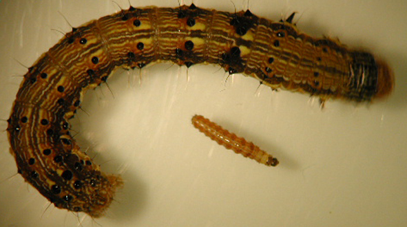 The effect of kalata B1 on growth and development of Helicoverpa punctigera, a caterpillar from the Lepidopteran order. A diet containing 0.8 μmol/g kalata B1 for 16 days significantly hindered development of caterpillar larvae compared with larvae on a diet free of kalata B1. Although no mortality was observed in the first six days for larvae fed the kalata B1 diet, 50% failed to survive past day sixteen. Those that did survive failed to progress pass the first instar stage of development and on average weighed 3.3 mg compared with larvae on the kalata B1 free diet that achieved fifth instar and weighed on average 284 mg (7).